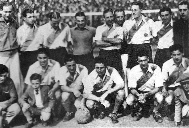 River Plate squad in 1936